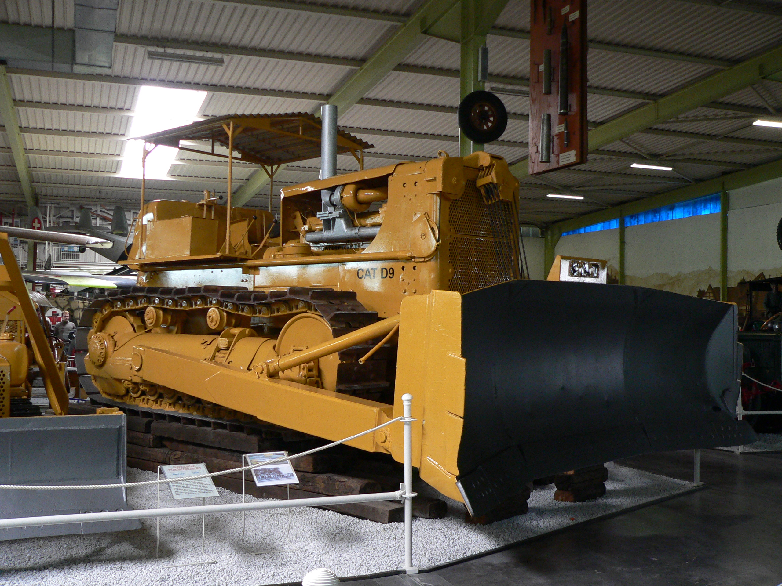 Caterpillar D9 Bulldozer older version in the museum Sinsheim, Germany